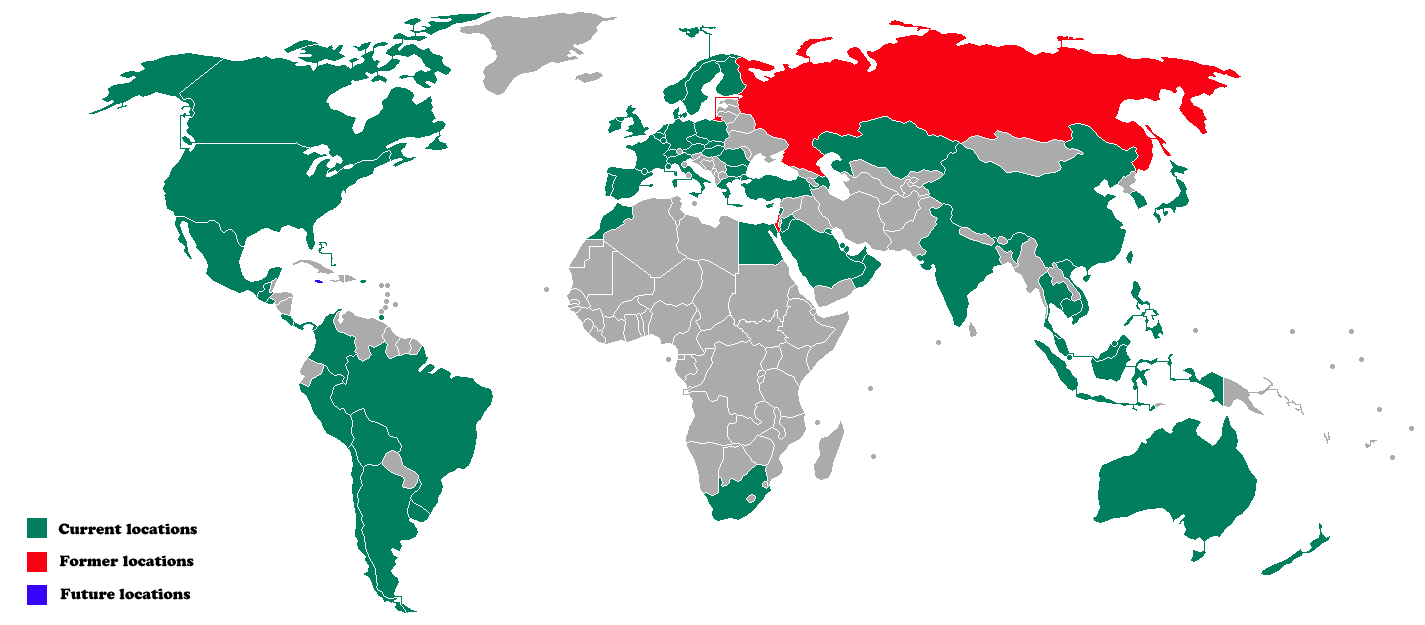 List of countries with Starbucks